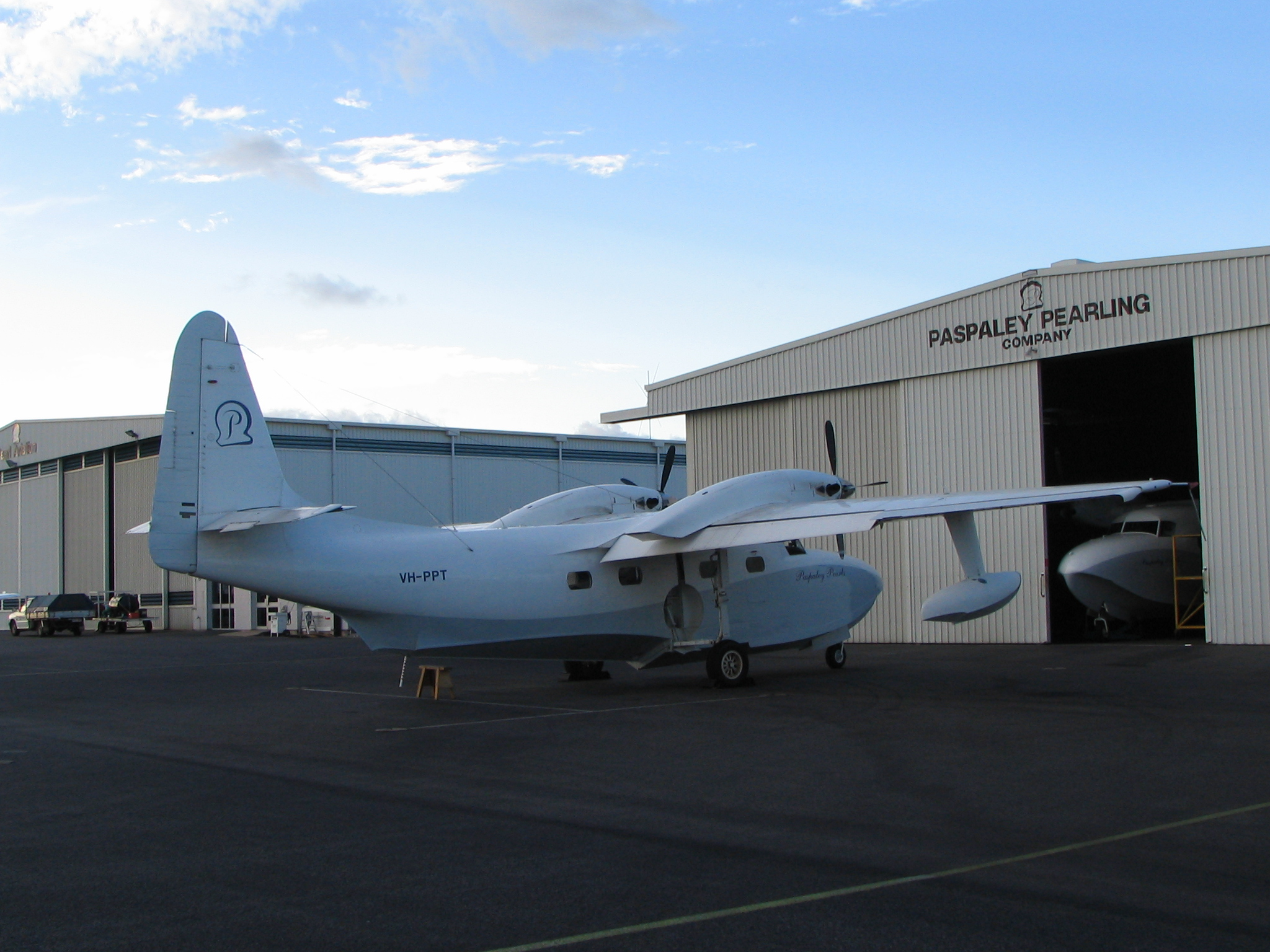 Paspaley Pearls operate a fleet of boats and aircraft to service their cultured pearl beds out of Darwin. This is one of the Mallards operated by them.